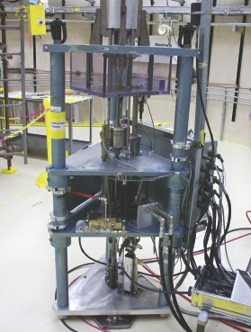 National Criticality Experiments Research Center, Nevada National Security Site. Godiva-IV is a bare metal uranium fast burst assembly designed to provide an intense burst of neutrons during a n extremely short pulse.